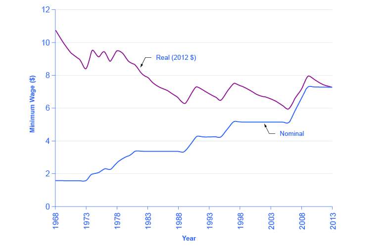 After adjusting for inflation, the federal minimum wage dropped more than 30 percent from 1967 to 2010, even though the nominal figure climbed from $1.40 to $7.25 per hour. Increases in the minimum wage in between 2008 and 2010 kept the decline from being worse—as it would have been if the wage had remained the same as it did from 1997 through 2007. (Sources